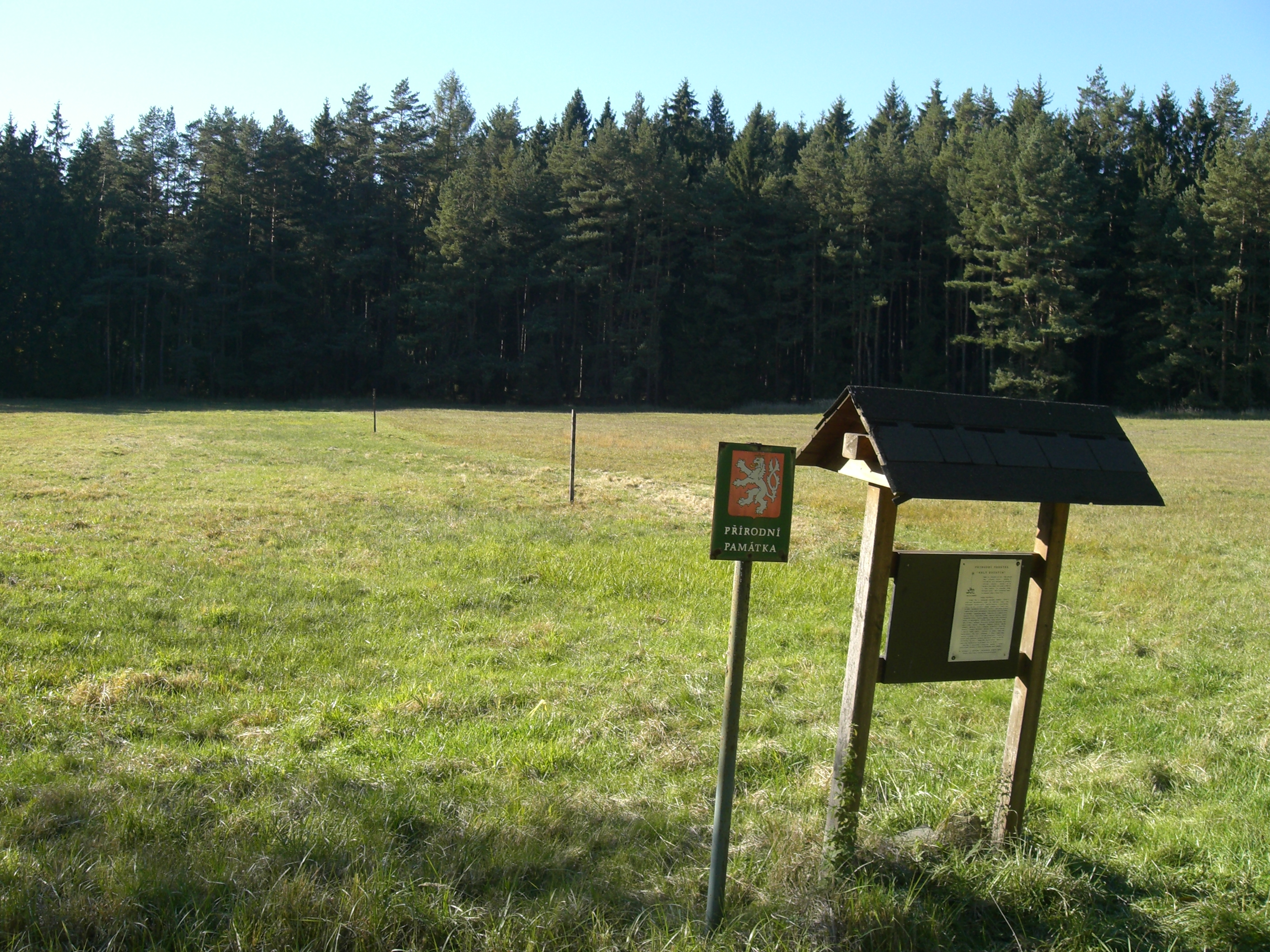 Malý Kosatín - Natural monument near Boudy village near Písek, Czech Republic 49°27′6.019″N 14°1′10.349″E / 49.45167194°N 14.01954139°E